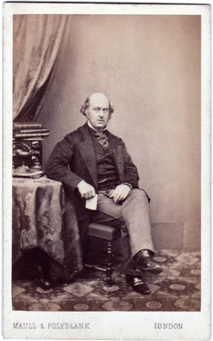 Carte de visite of James Talbot, 4th Baron Talbot of Malahide